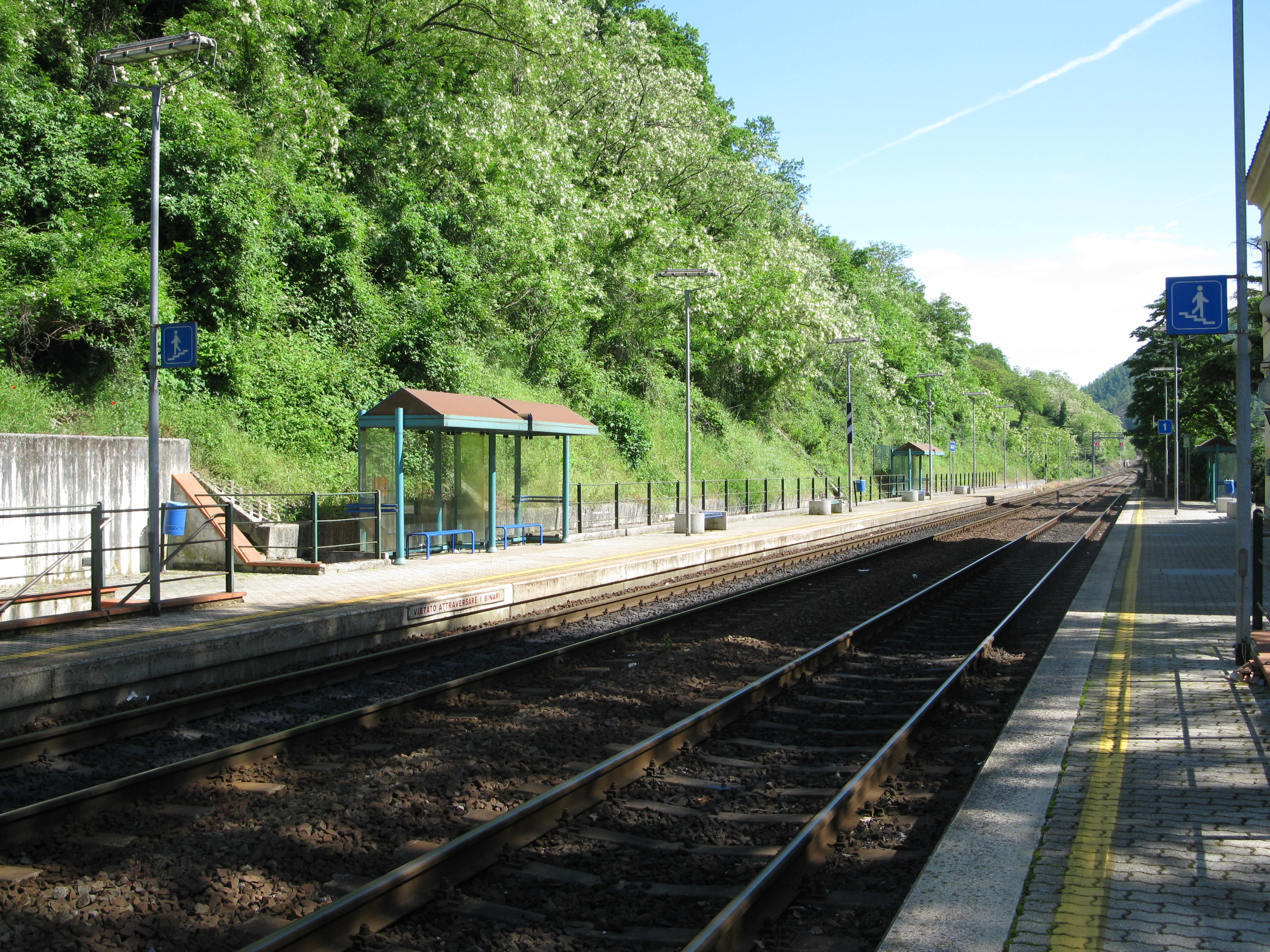 Vaglia railway station, platform 2